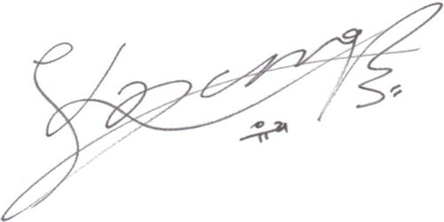 Kwon Yuri's signature.